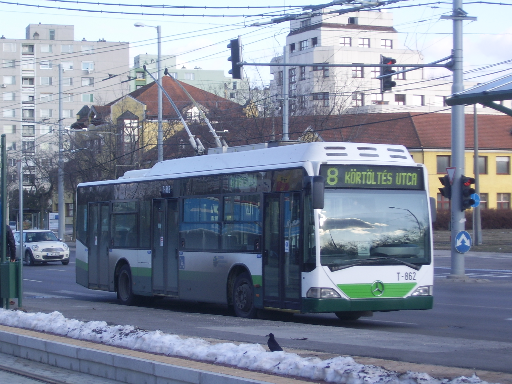 Trolley in Szeged.